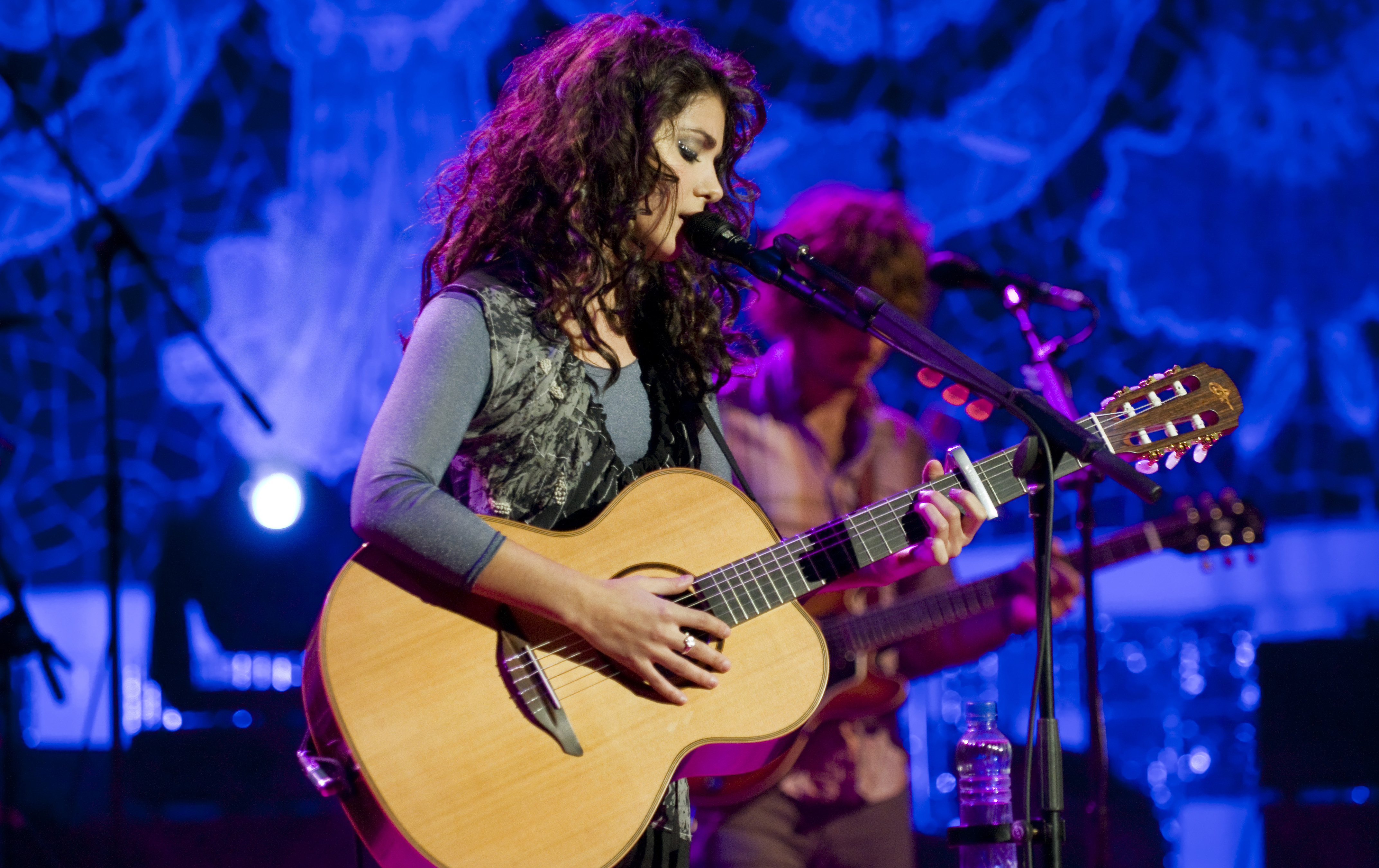 Katie Melua. Performing a live concert in the Palau de la Musica, Barcelona, November 2008.